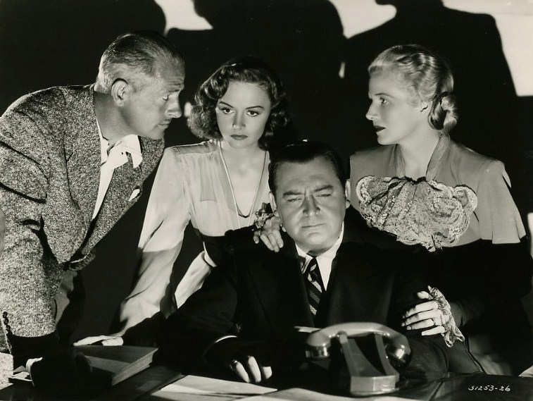 L. to R. : Reginald Denny, Donna Reed, Edward Arnold, and Ann Harding in Eyes in the Night - publicity still (cropped : see source)